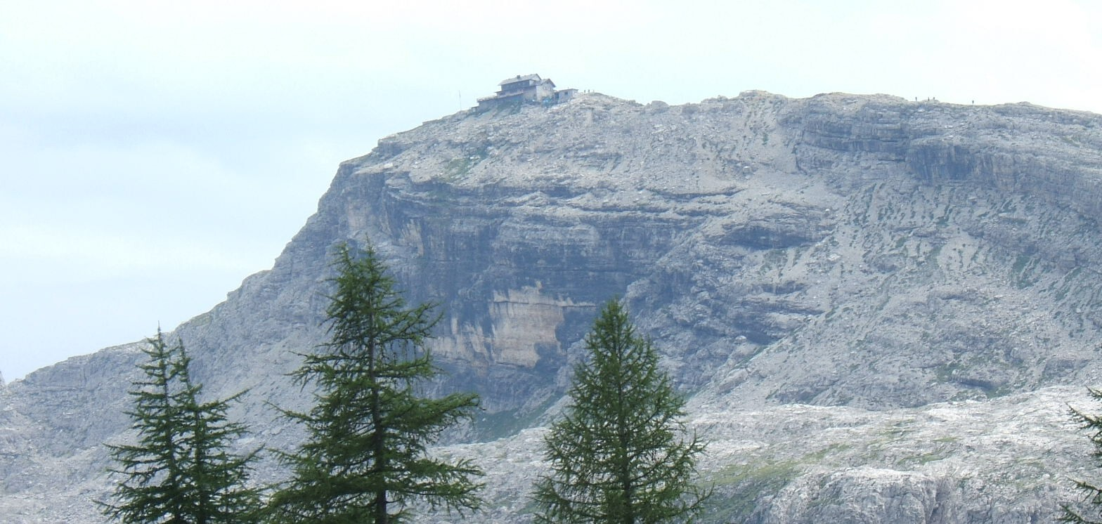 Rifugio Nuvolàu on the Alta Via 1 path in the Italian Dolomites.